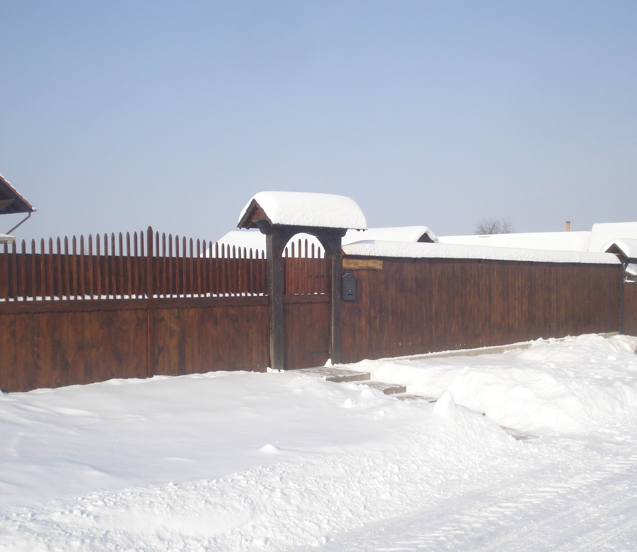 Poarta din Drăguș cu motive traditionale